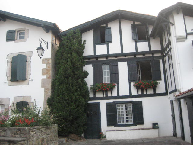 A photograph of a house in ascain, took it myself